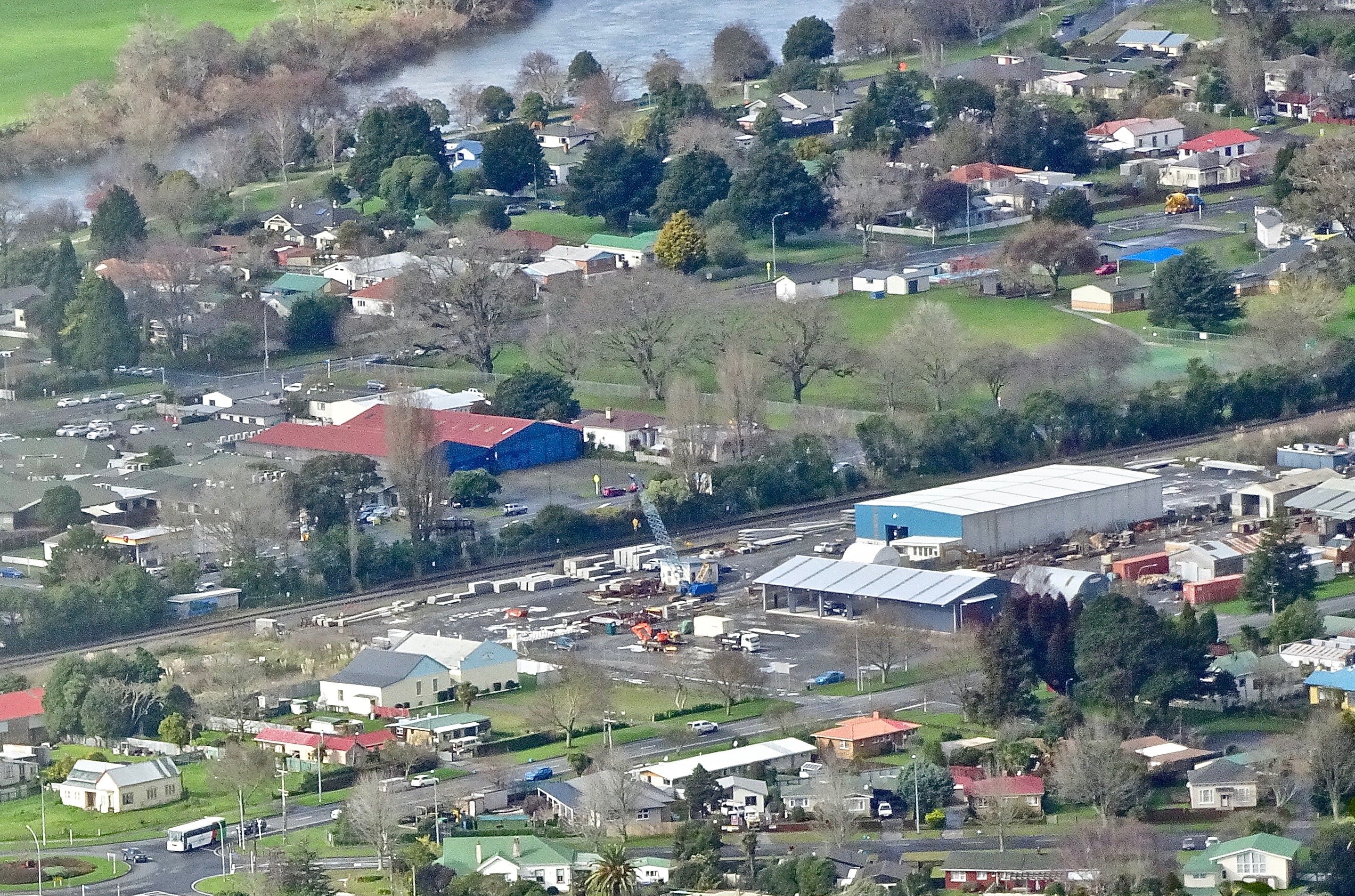 view from Hakarimata Range